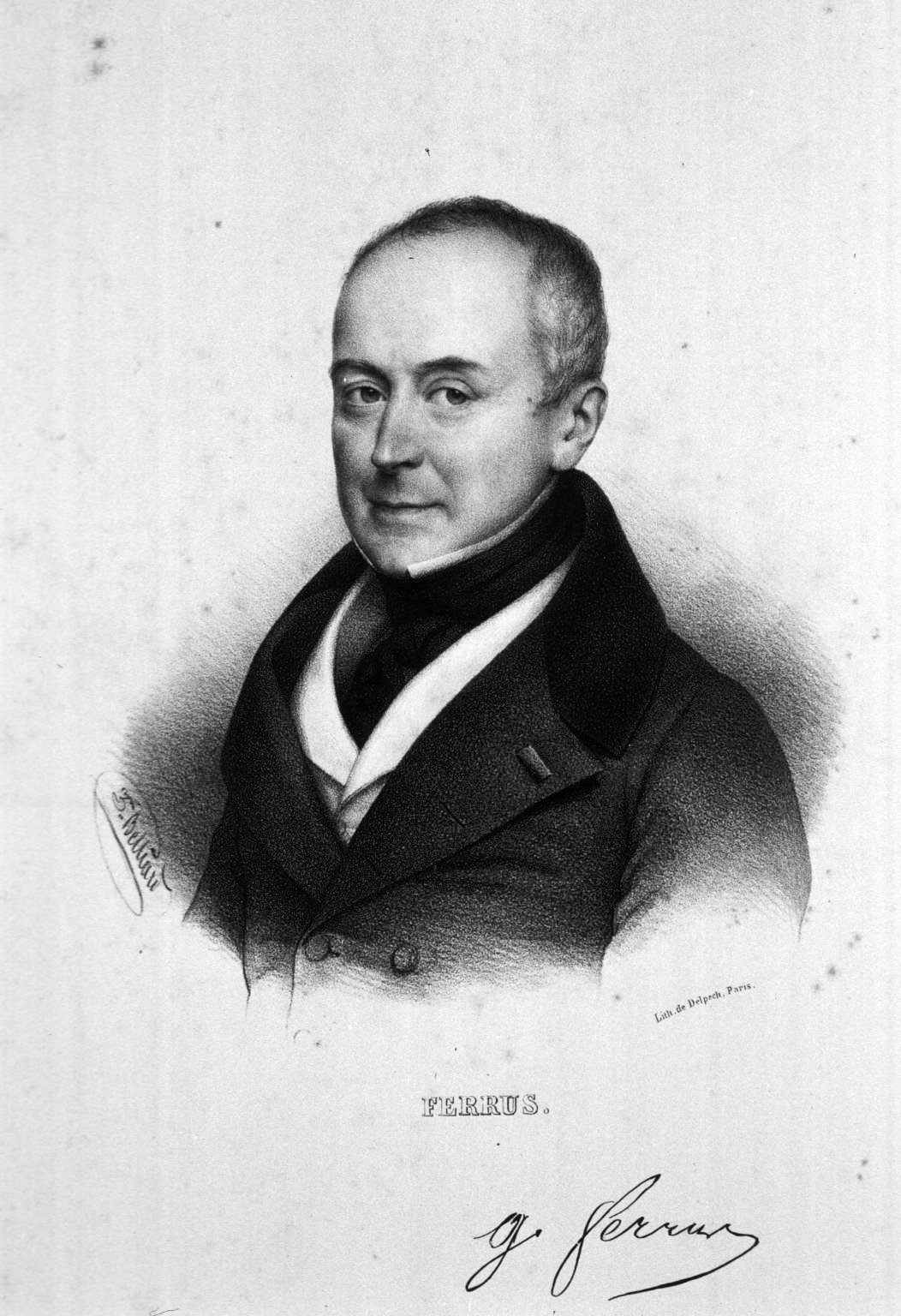 Guillaume Ferrus, French psychiatrist. Lithograph from engraving.